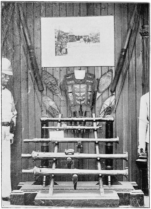 Moto Lantakas and Coat of Mail (c. 1900, Philippines)